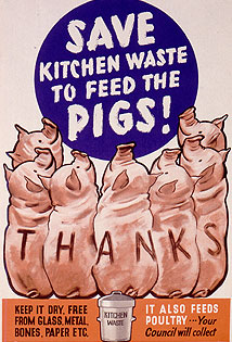 A World War II poster encouraging kitchen waste to feed animals.